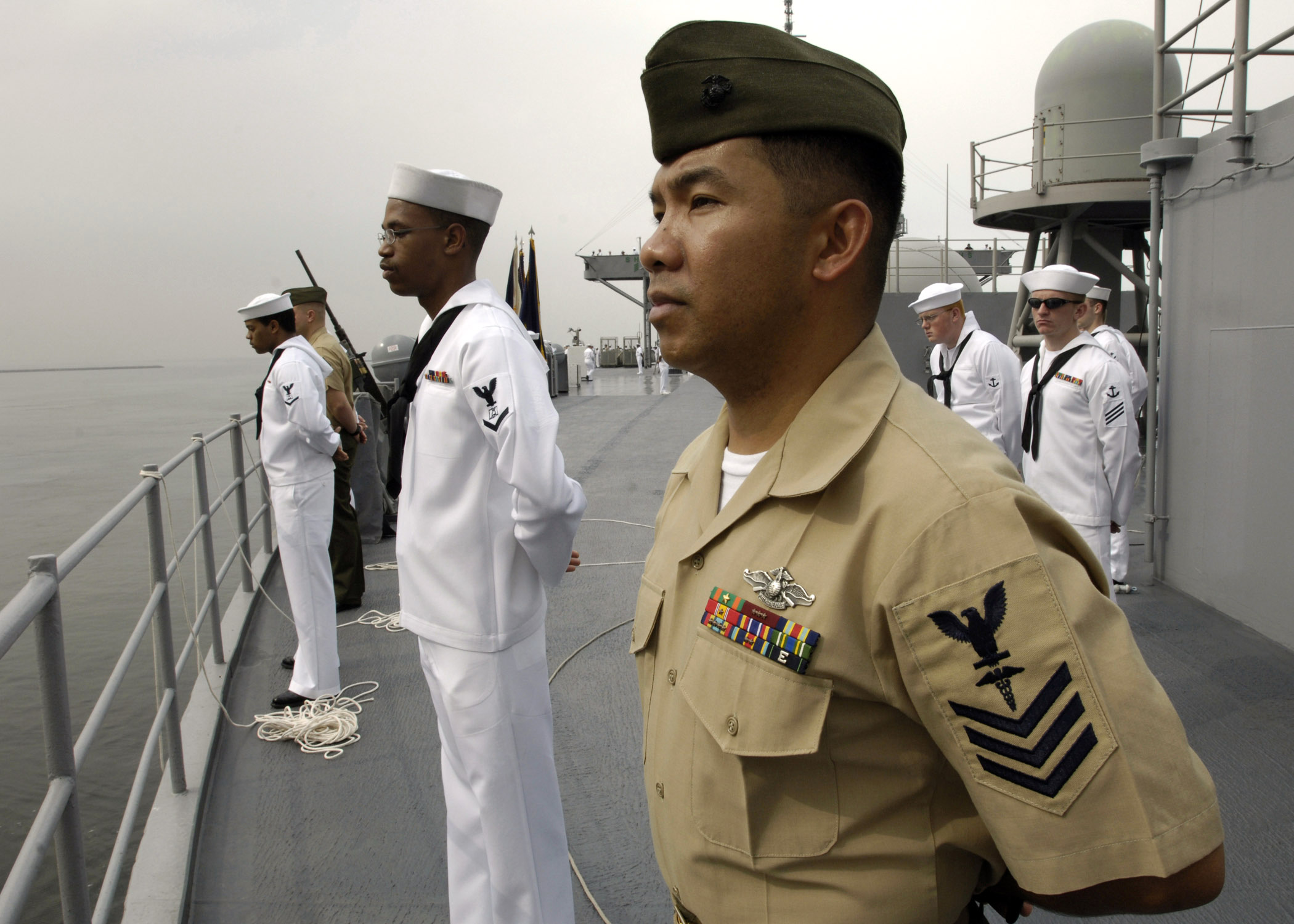 070208-N-4790M-076 Manila, Philippines (Feb. 8, 2007) - Hospital Corpsman 1st Class Ronaldo Lachica, a native of Lobo Batangas, Philippines, mans the rails as the amphibious Command ship USS Blue Ridge (LCC 19) pulls into Manila. Blue Ridge and embarked 7th Fleet staff are in the Philippines as part of Project Friendship, a humanitarian assistance/community service project with the Armed forces of the Philippines. During Project Friendship, the ship is scheduled to participate in friendship-building and goodwill-generating activities.